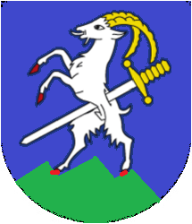 Shield of the District of Entremont, Canton of Valais - Blazono de la Distrikto Entremont, Kantono Valezo